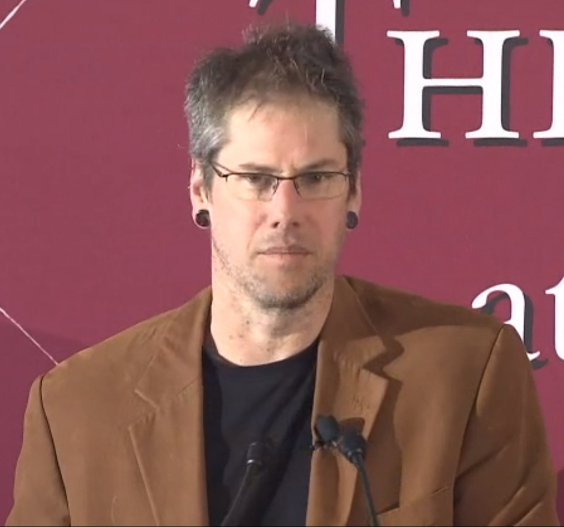 Nathaniel Comfort convenes four distinguished scientists on-stage at the John W. Kluge Center at the Library of Congress for a live oral history interview about the origins of the RNA world, the world at the dawn of life, before DNA, arising nearly four billion years ago.